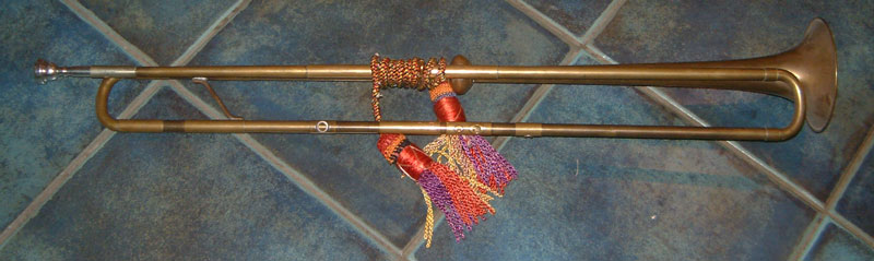 Baroque repro trumpet by Michael Laird, my photo, large